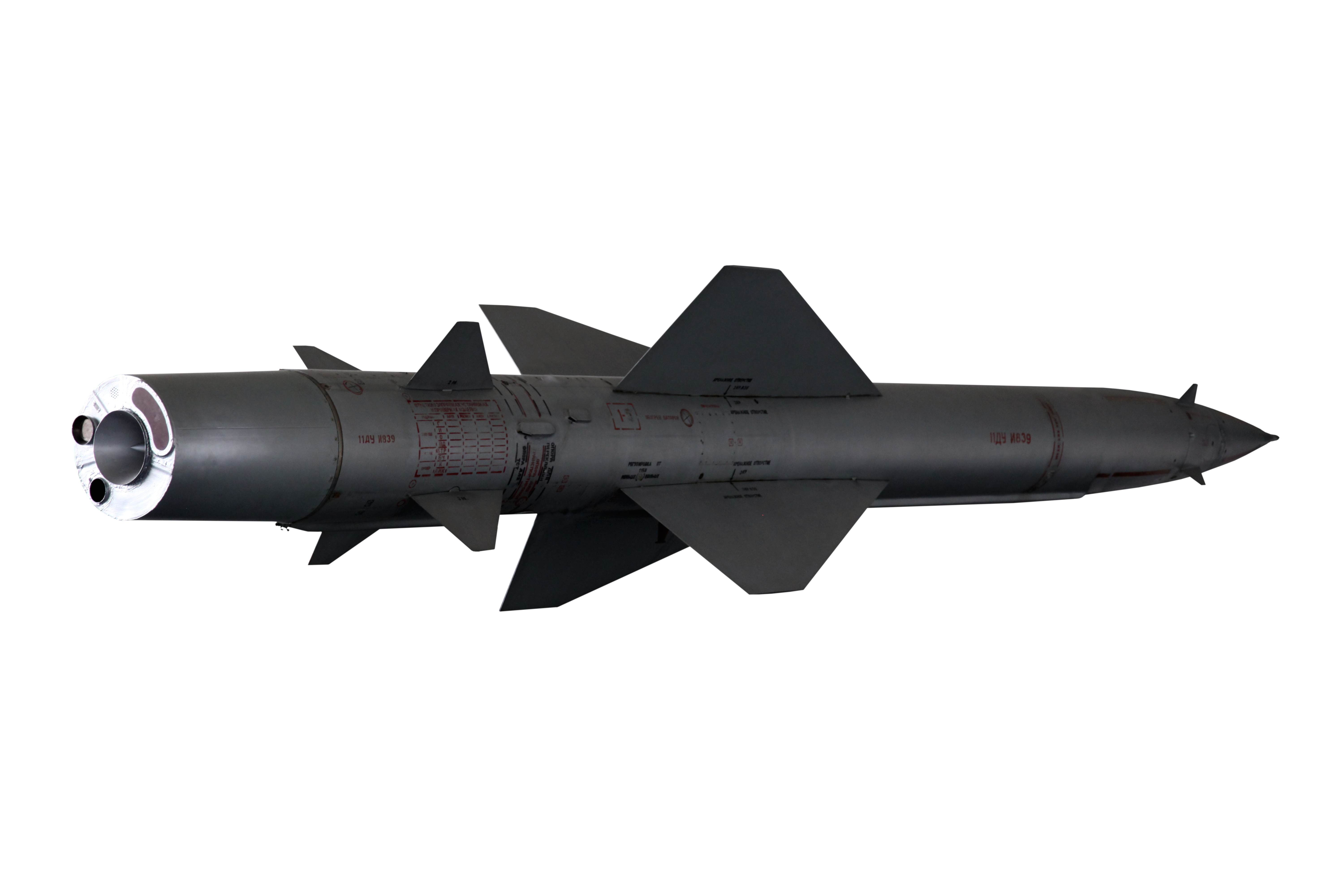 S-75 Dvina (NATO reporting name: SA-2 Guideline) missile on display at the US section of Imperial War Museum Duxford